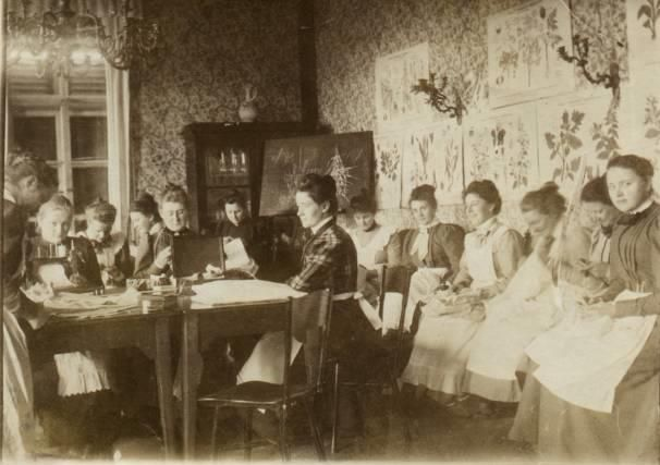 1898 Reifensteiner Schule Ofleiden Handarbeitsunterricht